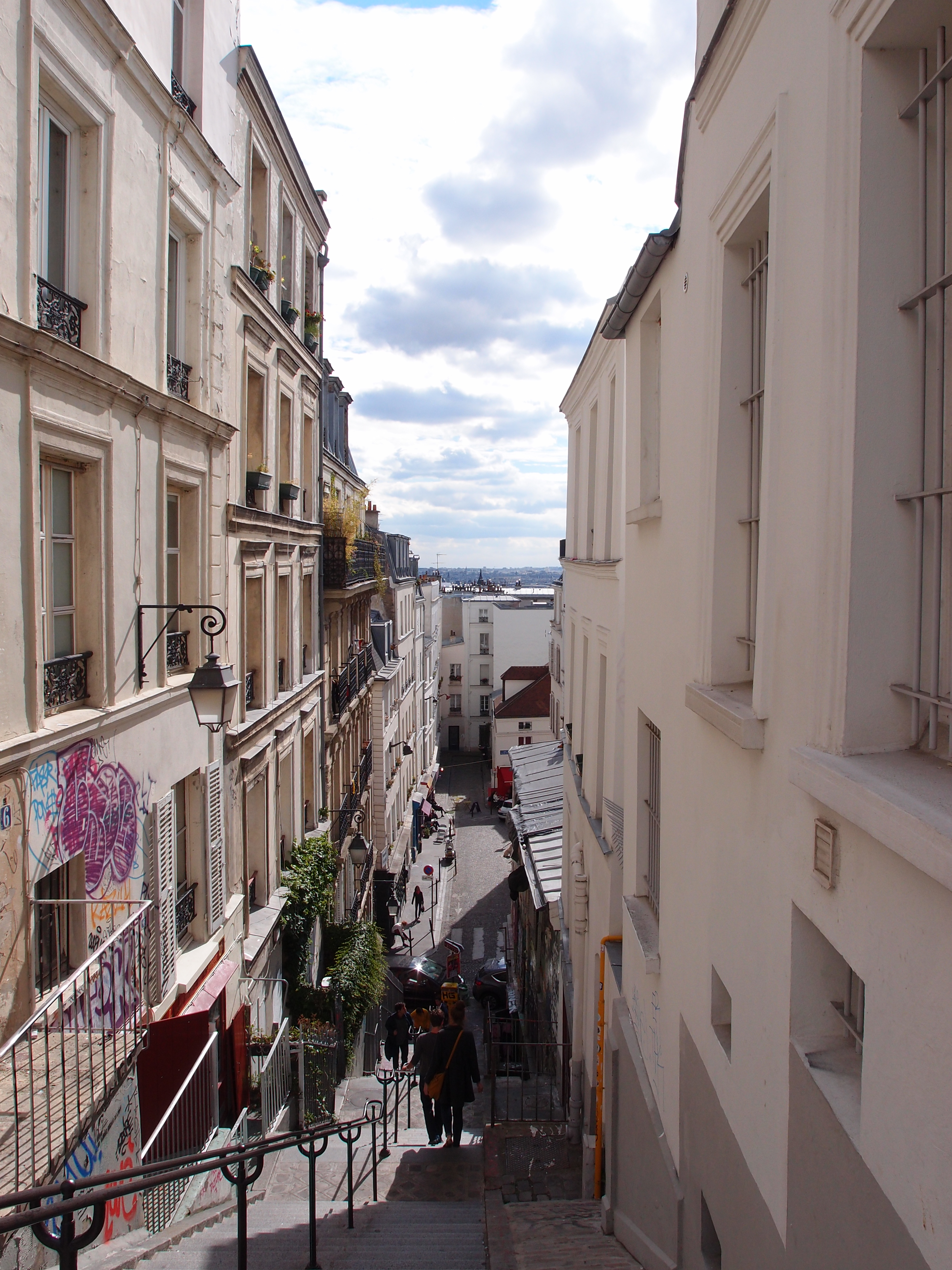 Stairs in Montmartre, Rue Drevet, Paris.